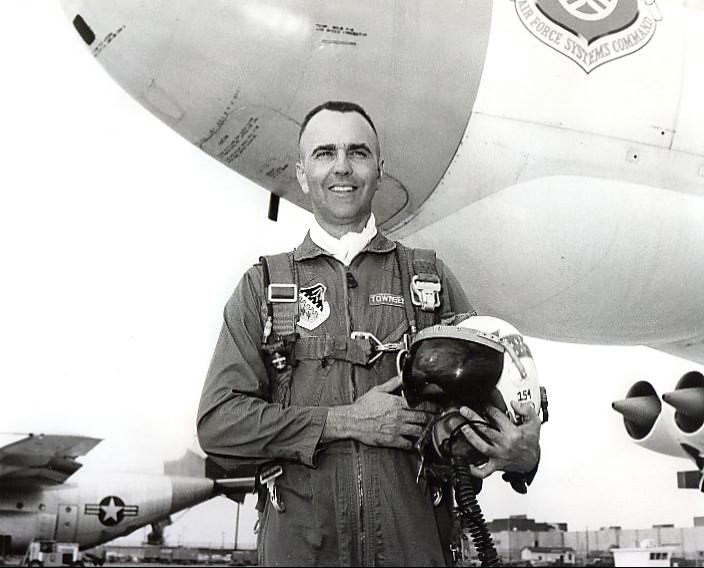 Colonel (later BGen) Guy M. Townsend standing beside a B-47 at Edwards Air Force Base in California, USA. Scanned image of USAF photograph courtesy of Gen. Townsend.